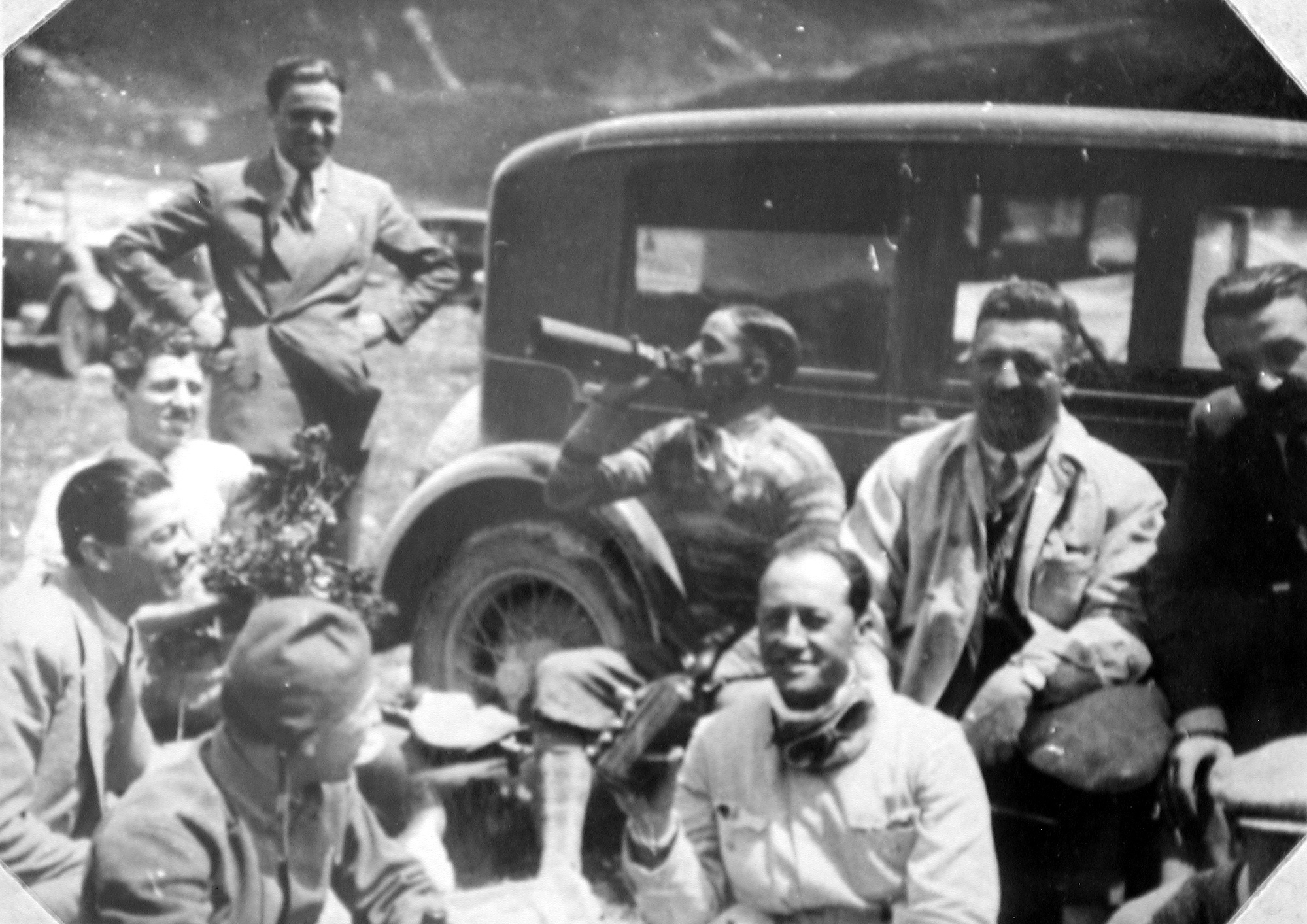 The racecar drivers Tazio Nuvolari (5th from left), Luigi Arcangeli (6th) and Enzo Ferrari (7th) of Alfa Romeo with Prospero Gianferrari (1st)